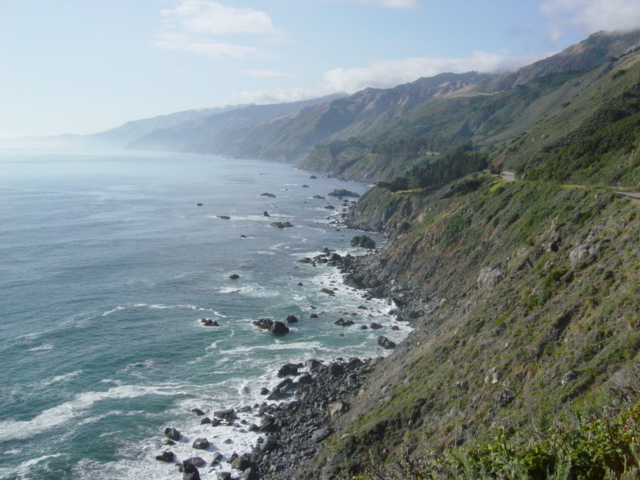 Big Sur, California